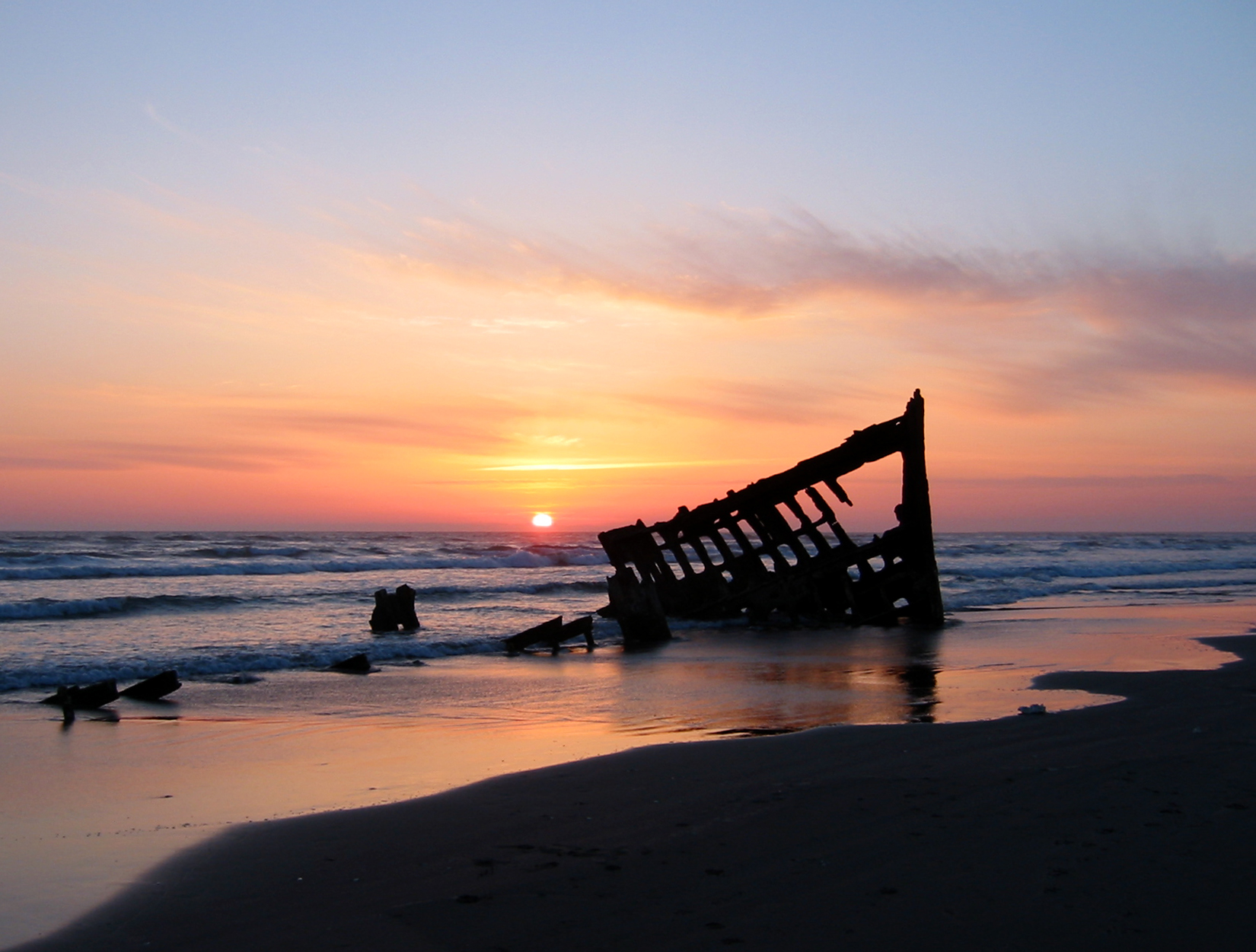 The wreck of the Peter Iredale in the Fort Stevens State Park, Oregon, USA, at sunset. Ran aground in 1906.